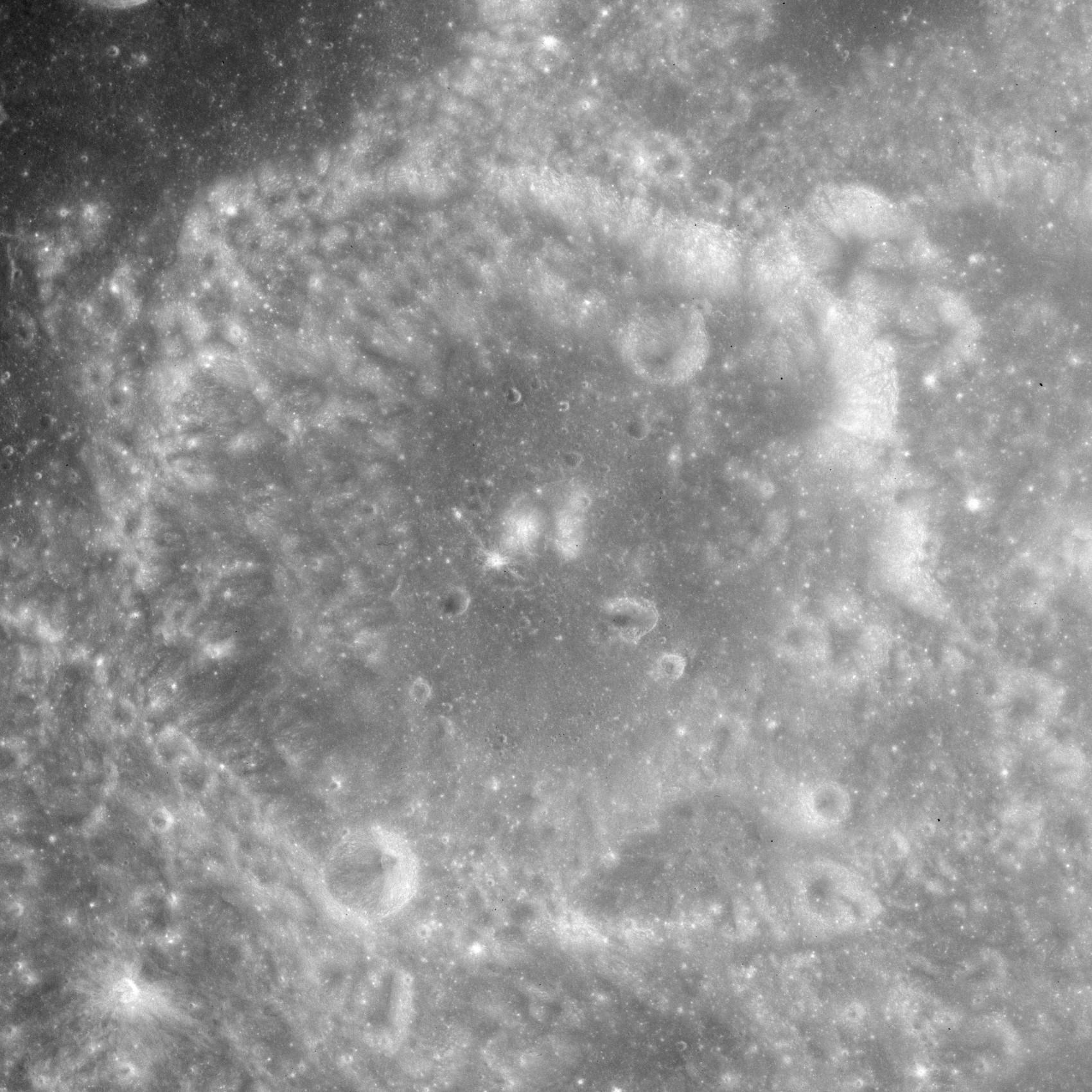 Maclaurin, on the moon. Camera Altitude is 117 km, Sun Elevation is 65°.